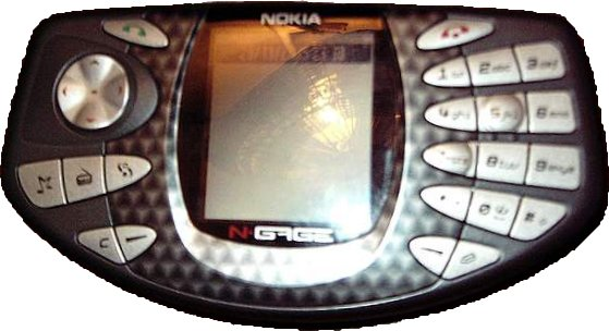 Picture of Nokia N-Gage